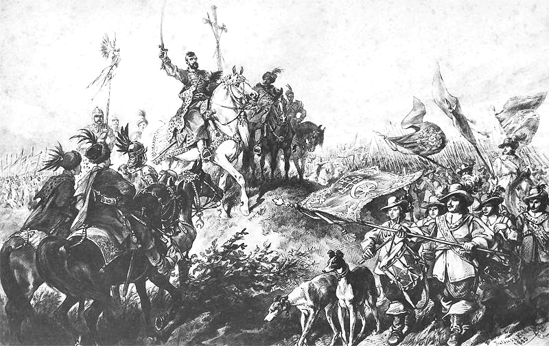 Jeremi Wiśniowiecki`s army exiting Lubny in 1648 by Juliusz Kossak